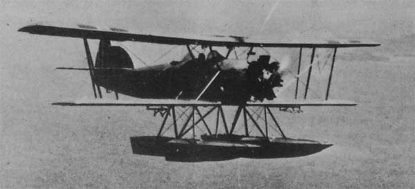 Norwegian Marinens Flyvebaatfabrikk M.F.10 seaplane trainer in the air.